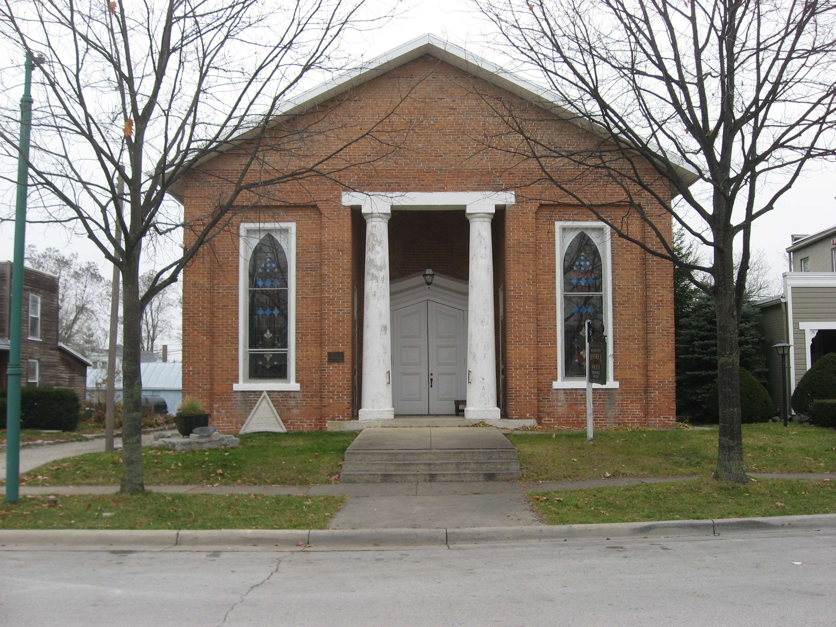 Front of the former First Presbyterian Church of Wapakoneta, located at 106 West Main Street in Wapakoneta, Ohio, United States. Built in 1861 and since closed, it is now the home of the Auglaize County Historical Society. It is listed on the National Register of Historic Places.